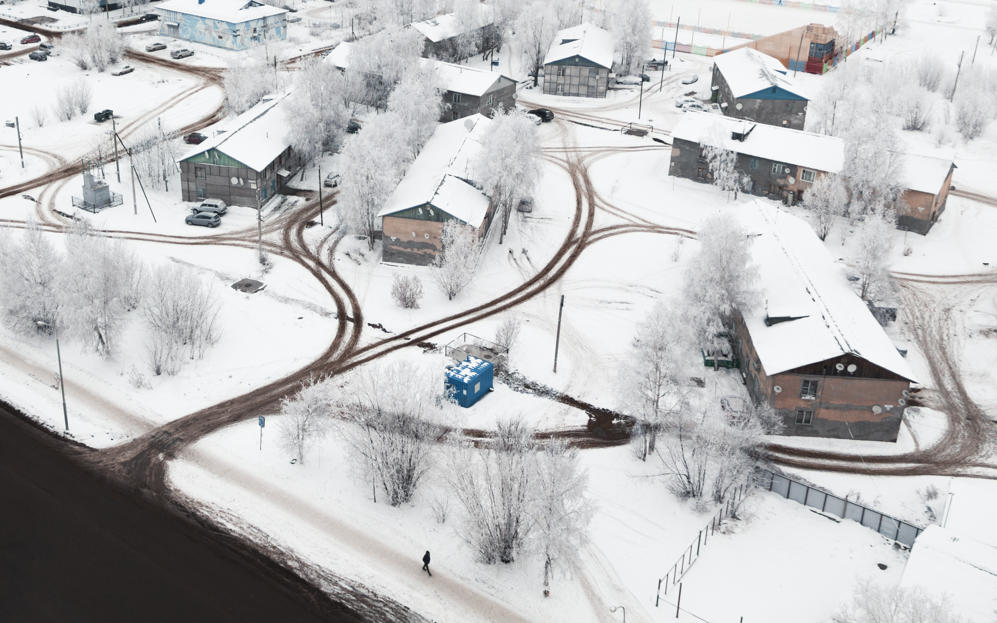 Old Houses in Nizhnevartovsk, Tayozhnaya street (a part of Omskaya street)